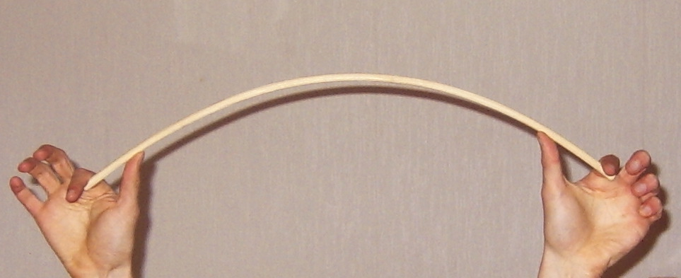 Bending of a cane with angular momenta acting on each end. Illustration of the Euler Bernoulli beam theory.